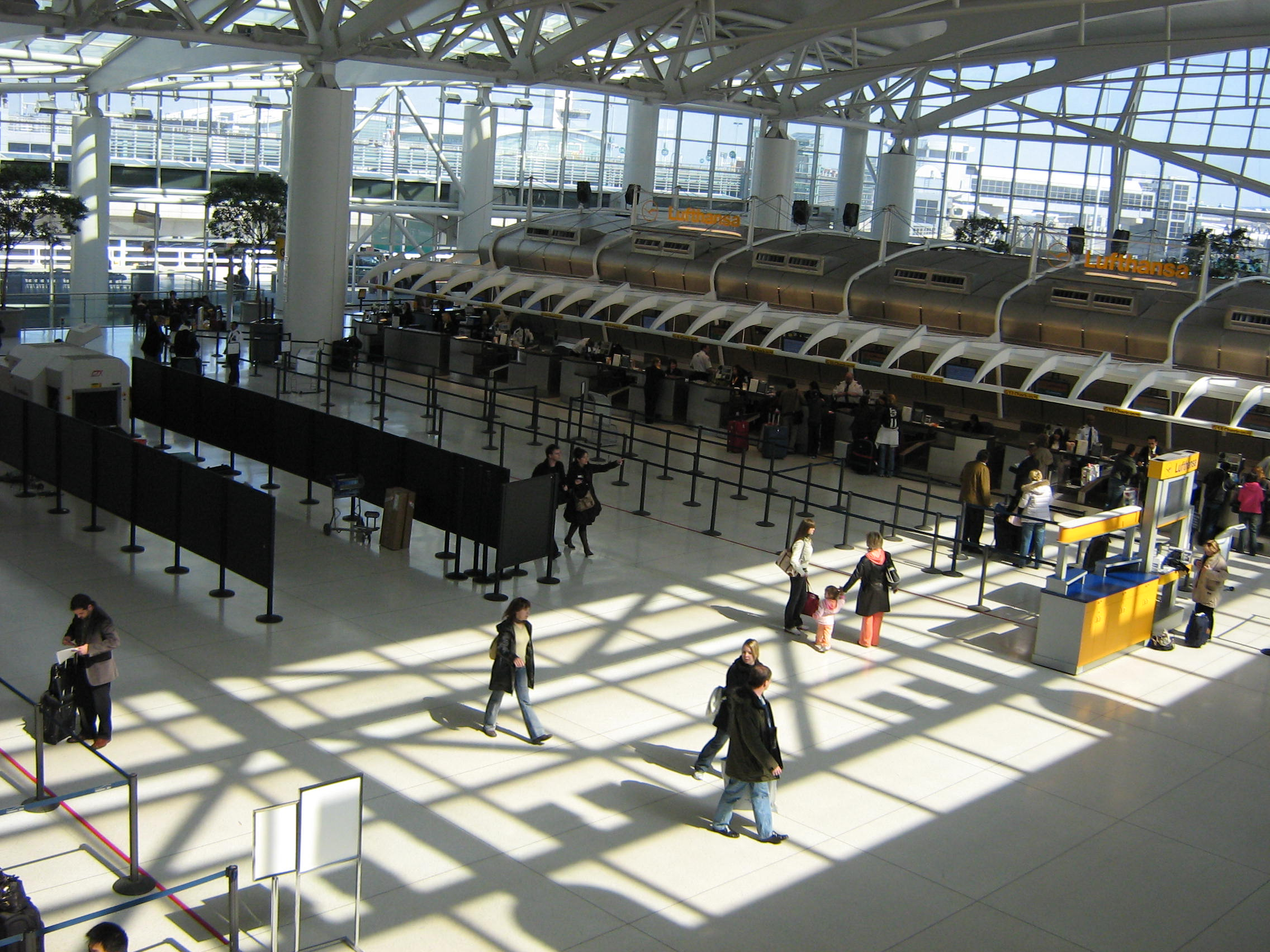 Check-in at Terminal 1 at John F. Kennedy International Airport